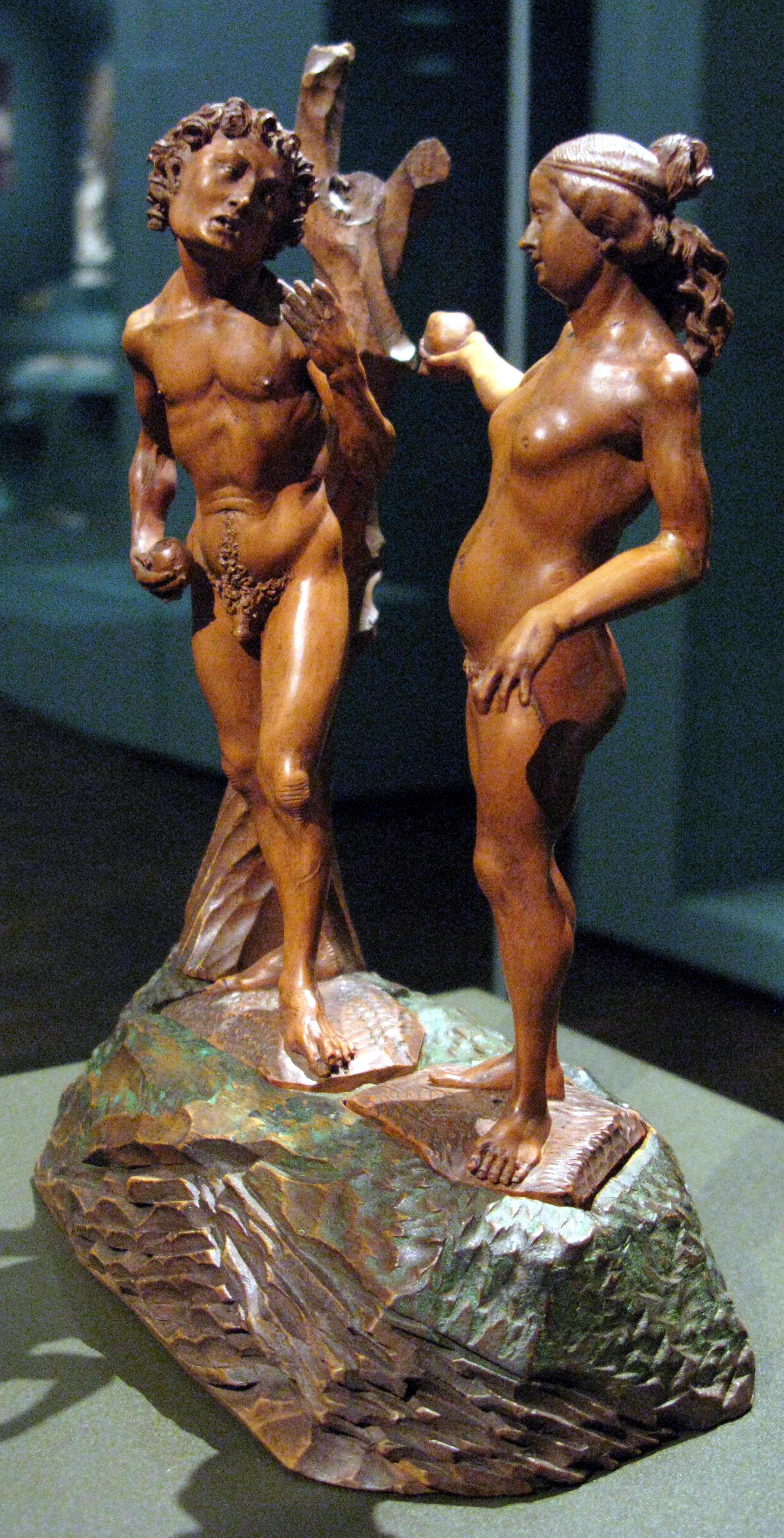 Hans Wydyz: Adam and Eve; Historisches Museum Basel